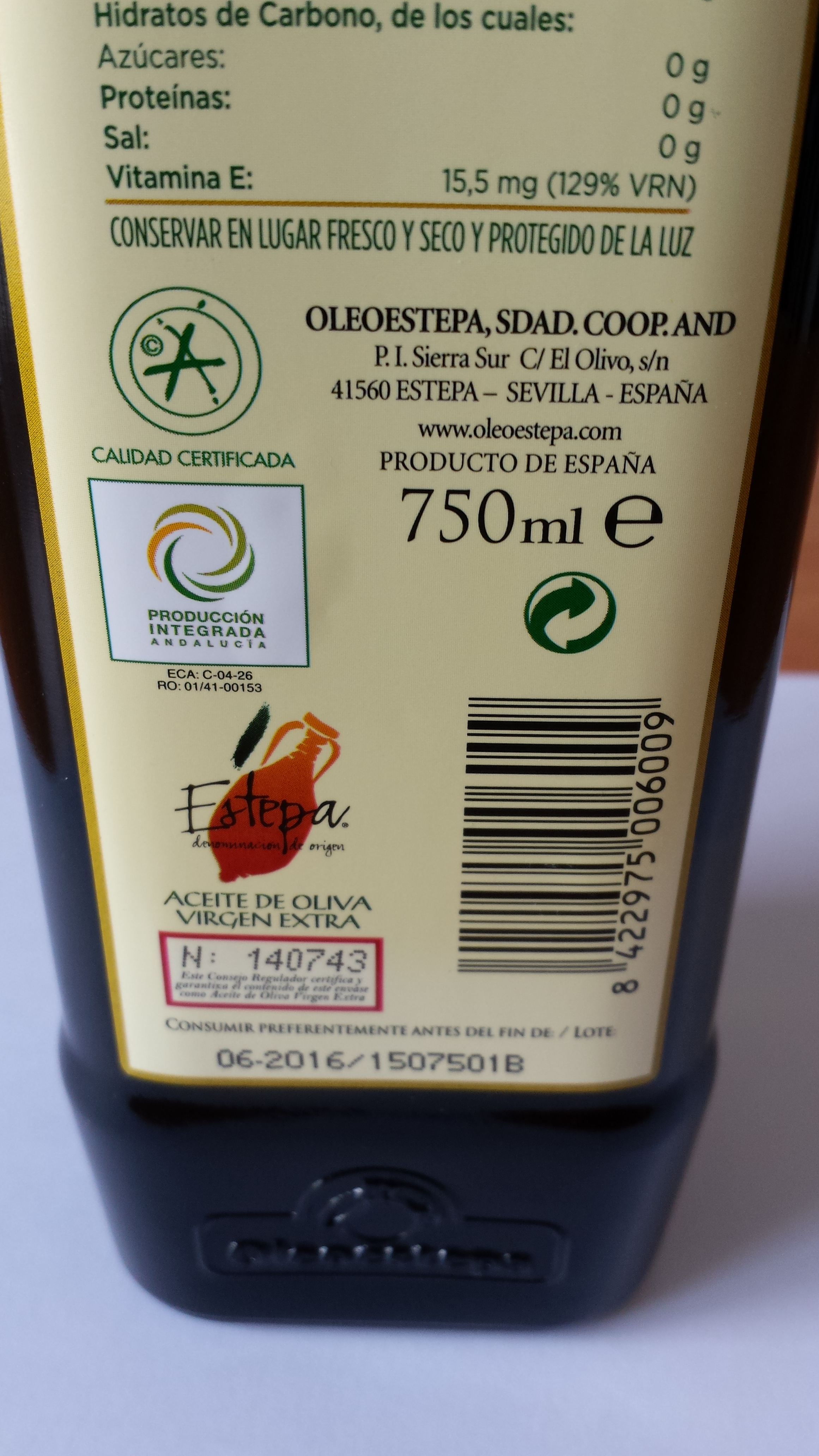 AOC Estepa olive oil, Spain